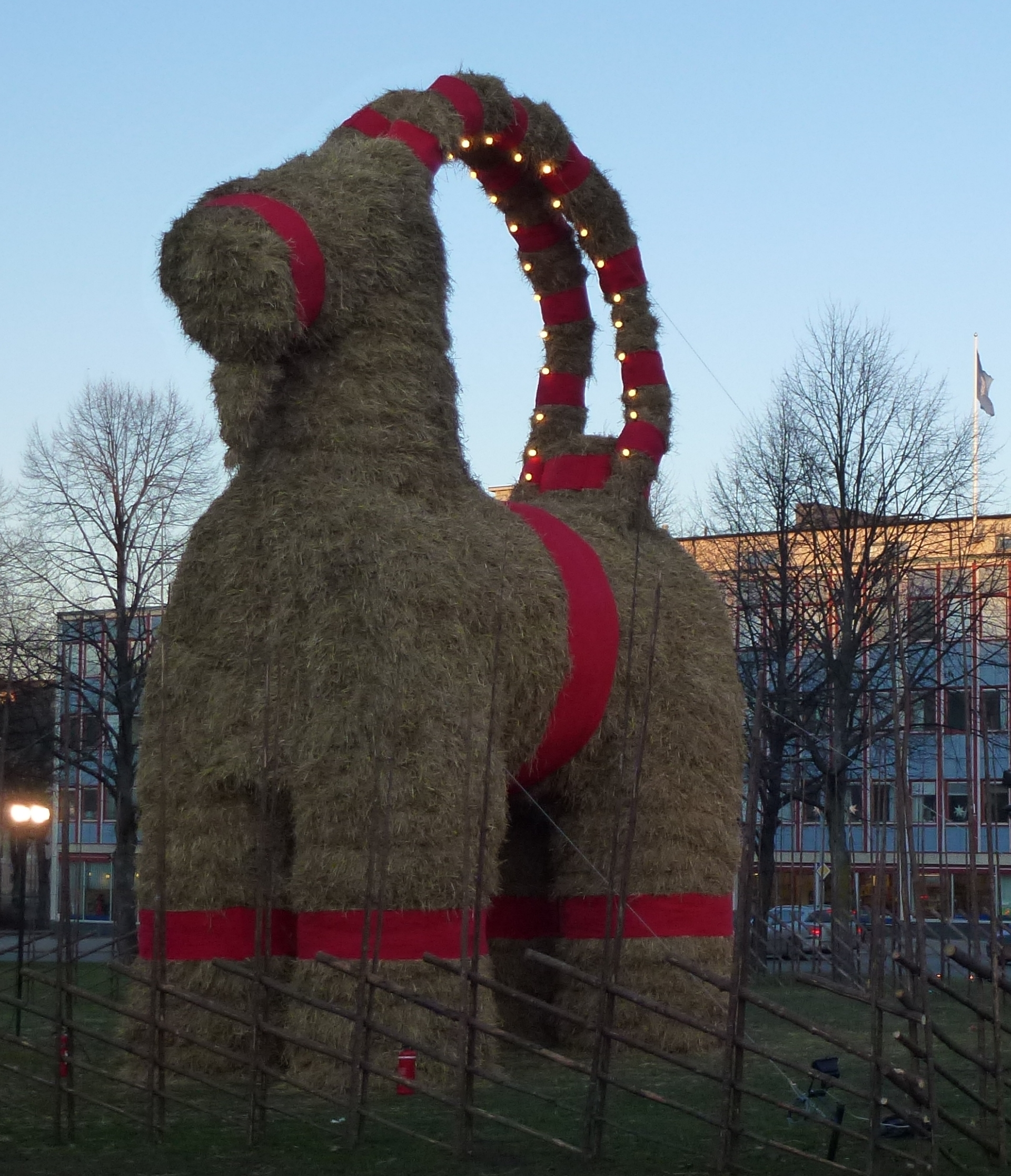 Gävle Goat (Gävlebocken), photographed on 26 November 2011, day before its inauguration. It was burned down by vandals on 2 December.